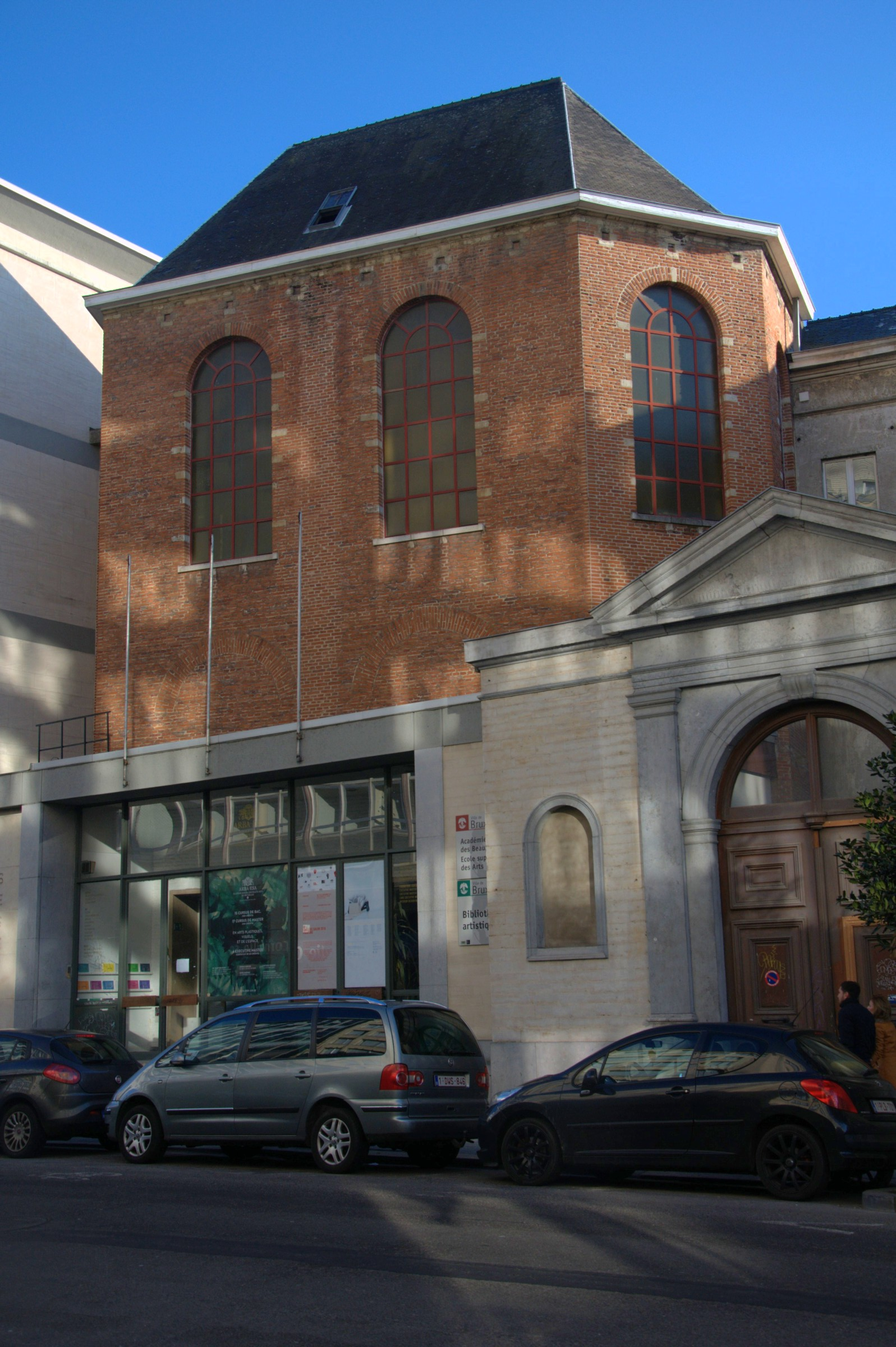 Patrimoine immobilier protégé dans la Région de Bruxelles-Capitale